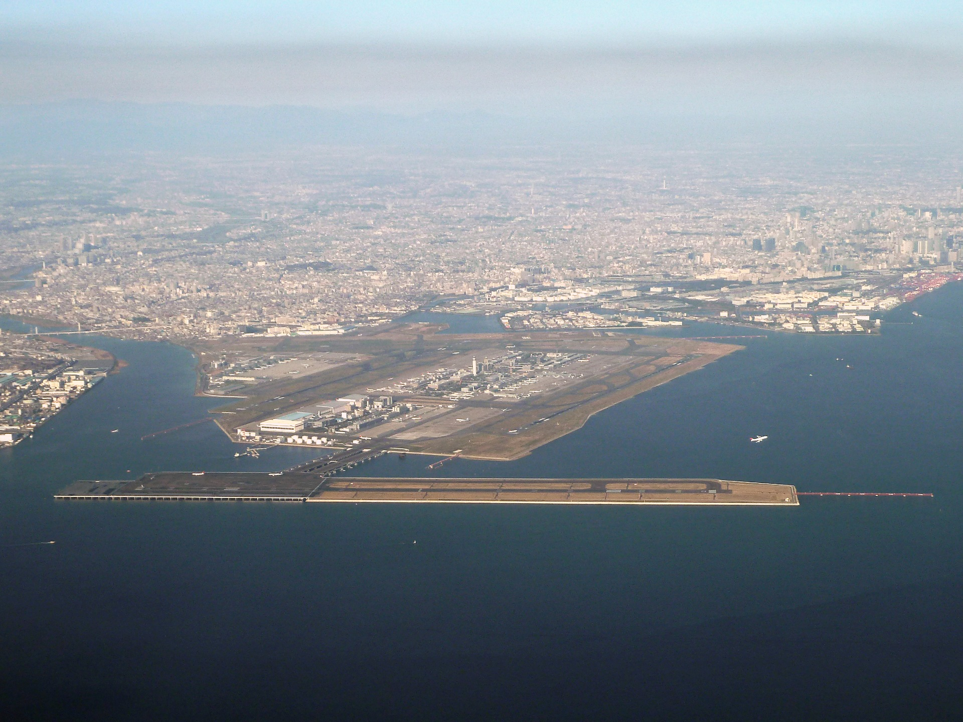 Tokyo International Airport